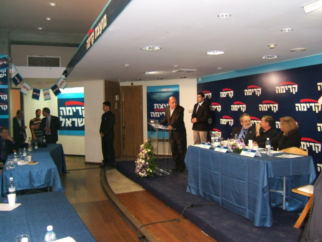 Shaul Mofaz speaking at the Kadima party council, Feb. 2010